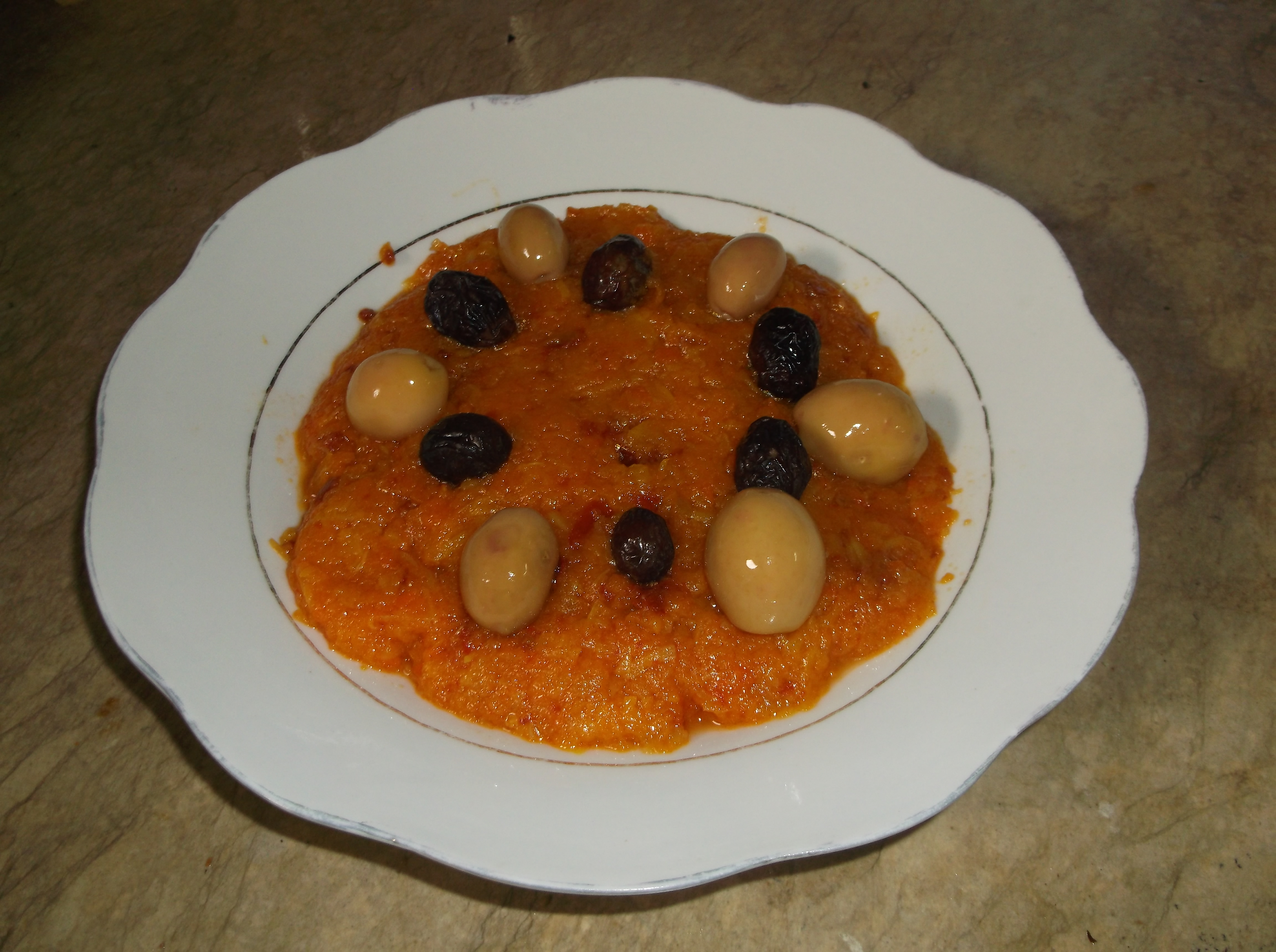 Tunisian salad, composed of a mixture of pureed carrots This is an image of food from Tunisia